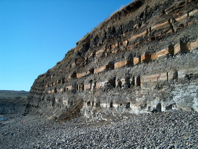 Cliff at Kimmeridge Bay. Clearing showing the strata that cliffs on this coast are so famous for.